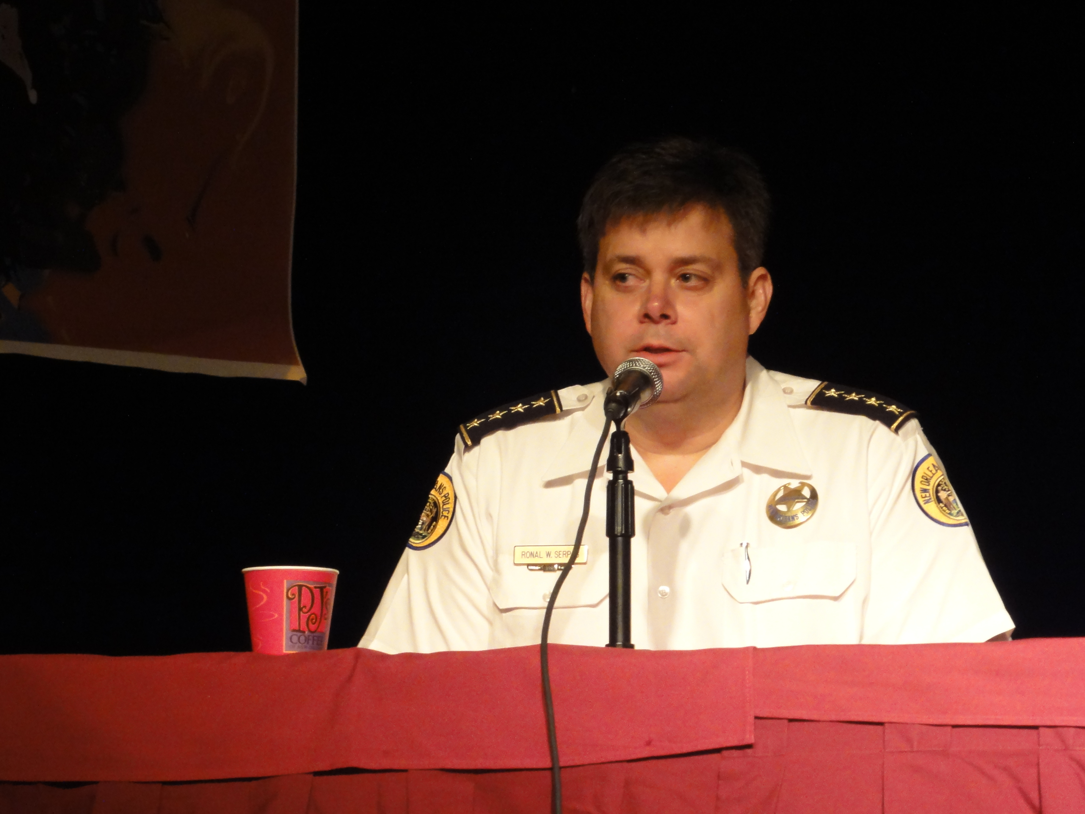 New Orleans Police Department chief Ronal Serpas at "Rising Tide" conference, New Orleans.